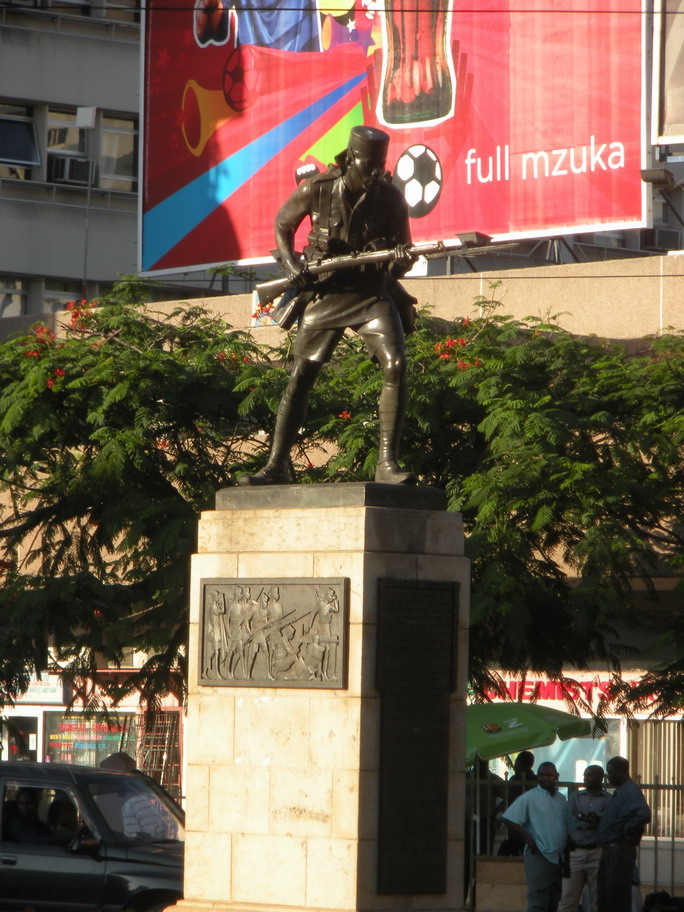 The Askari Monument in the centre of Dar es Salaam downtown, which is in memory of the African soldiers who were dead in World War One.